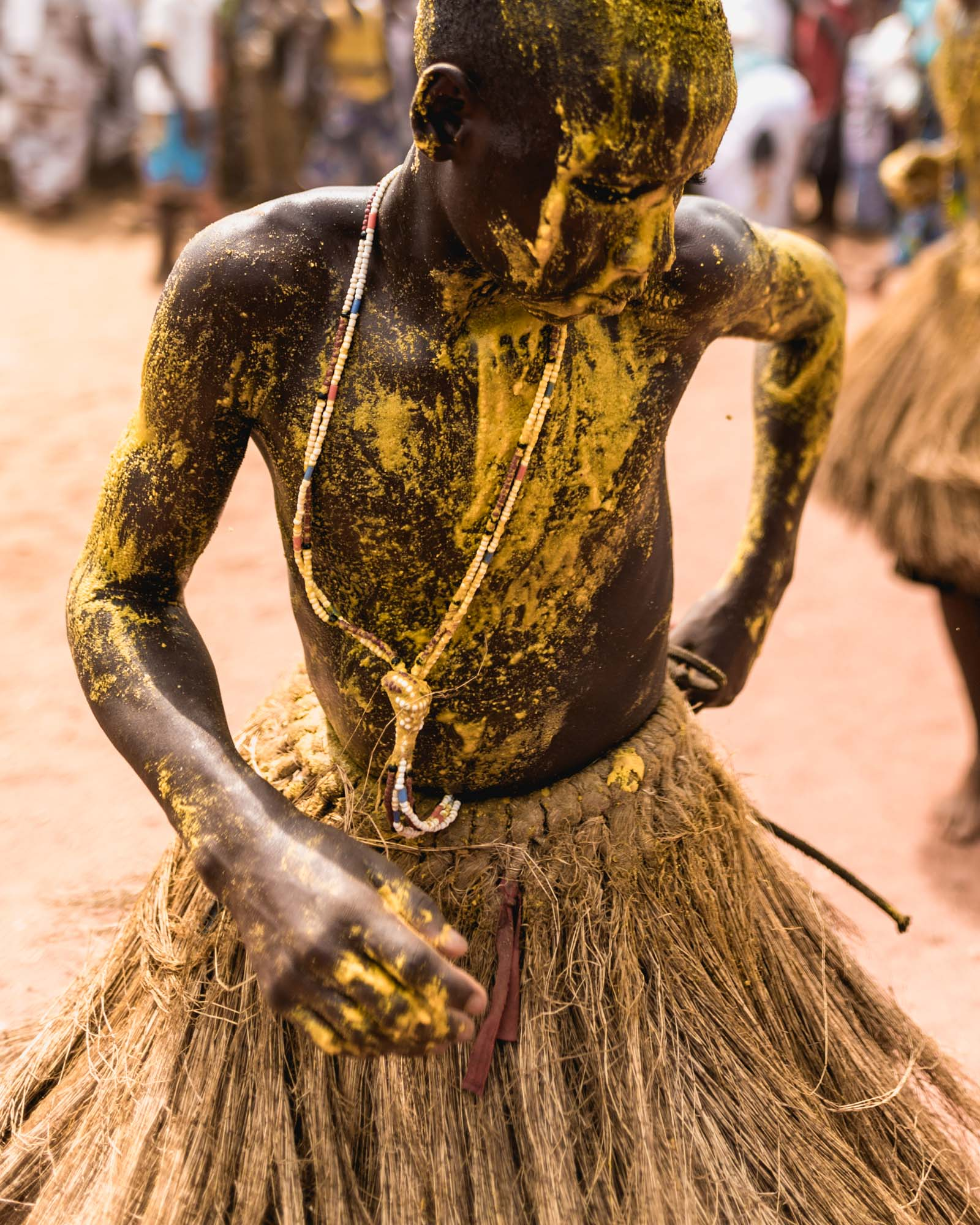 Voodoo, an ancient and significant part of the culture of southern Benin is celebrated every year across the southern coast. In Grand-Popo, Benin, a beachfront town on the border of Togo, a young child dances covered in a mustard ceremonial mixture. This is an image with the theme "Play" from: Benin